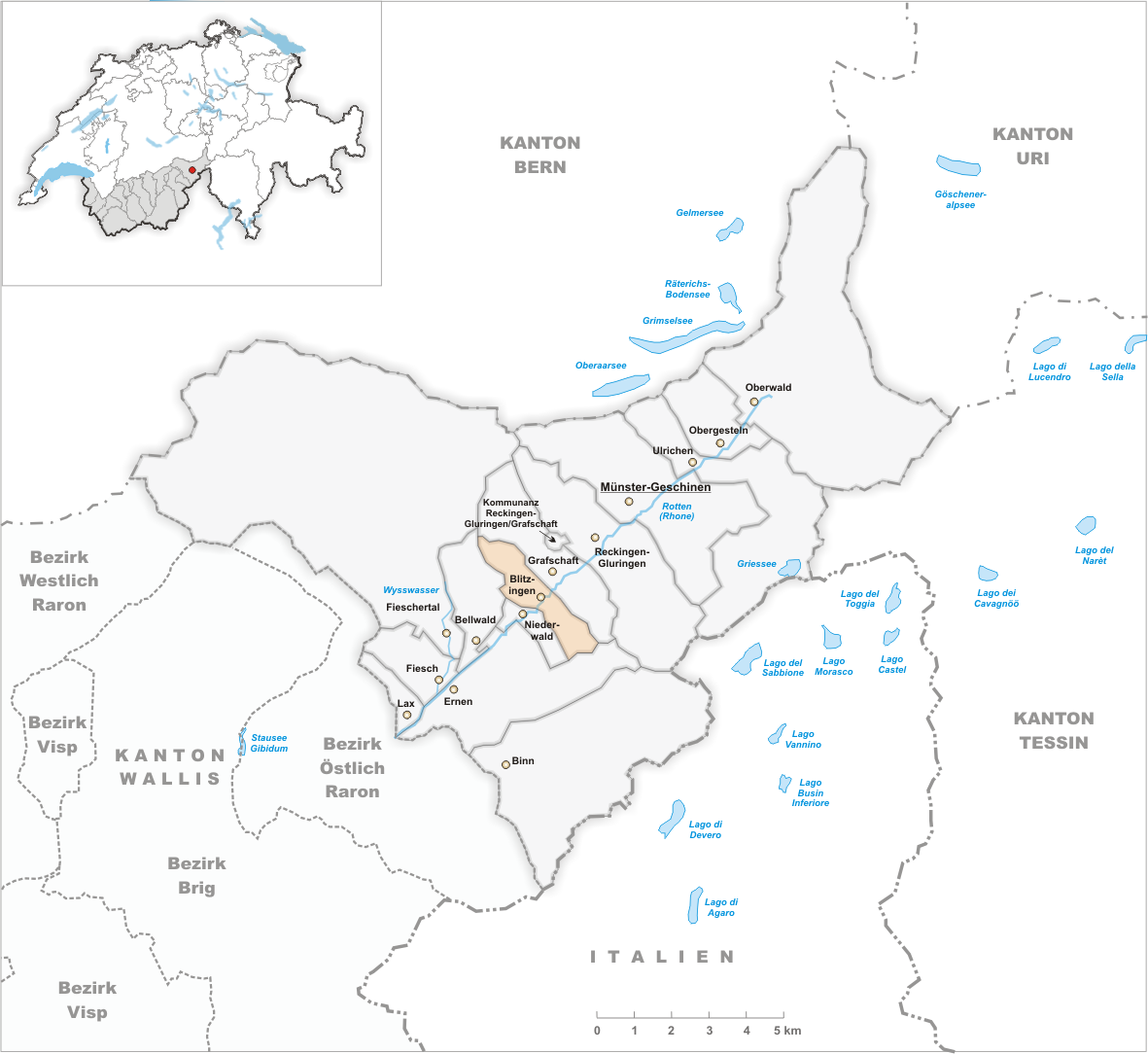 Municipality Blitzingen